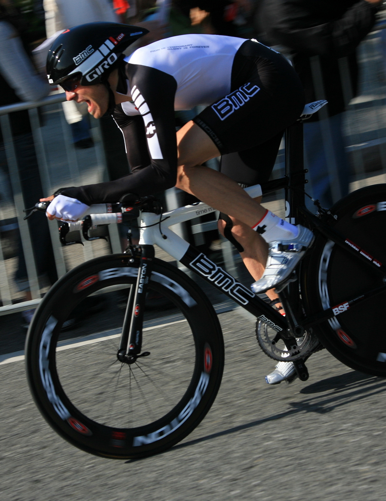 Alexandre Moos (BMC Racing Team) at the Prologue of the Tour of California in Palo Alto